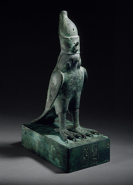 Egypt, Ptolemaic-Roman Period, 323 B.C.-395 Sculpture Bronze Gift of Varya and Hans Cohn (AC1992.152.67a-d) Egyptian Art Currently on public view: Hammer Building, floor 3